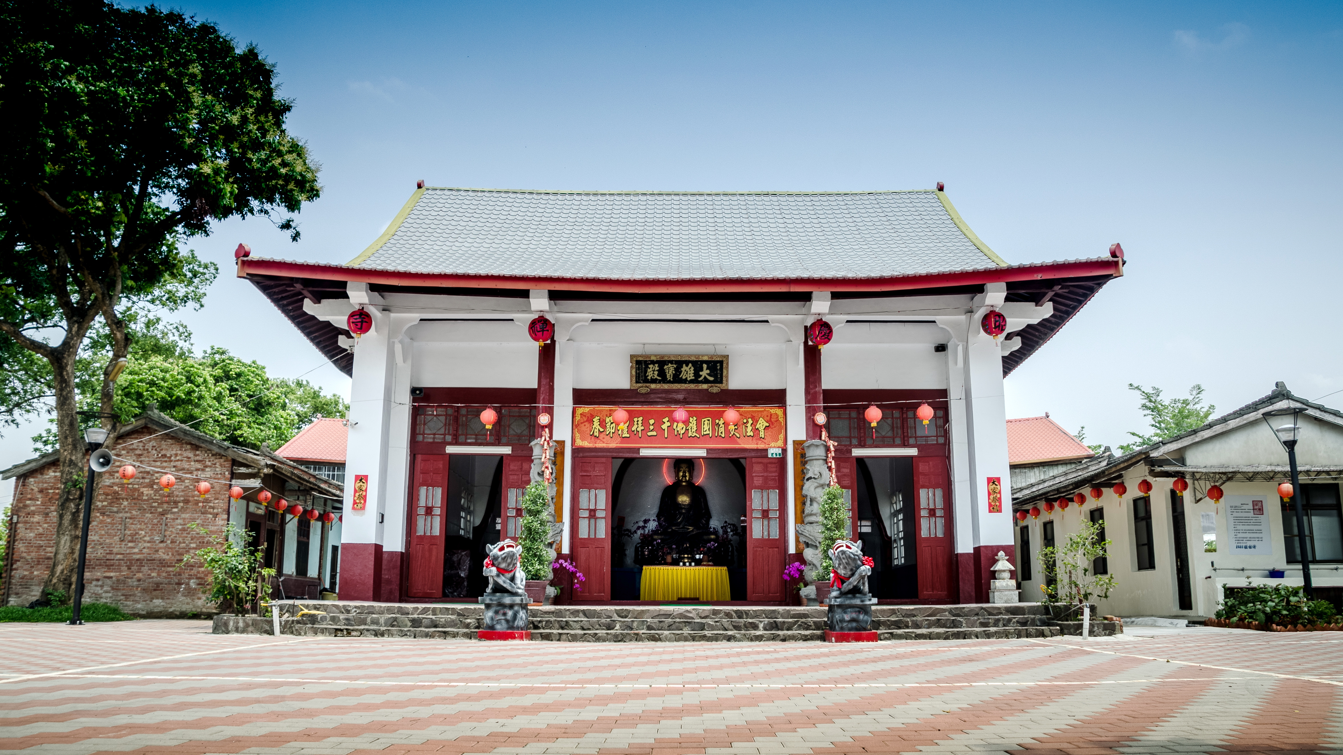 Zhaoqing Buddhist Temple, Dalin, Chiayi, Taiwan.